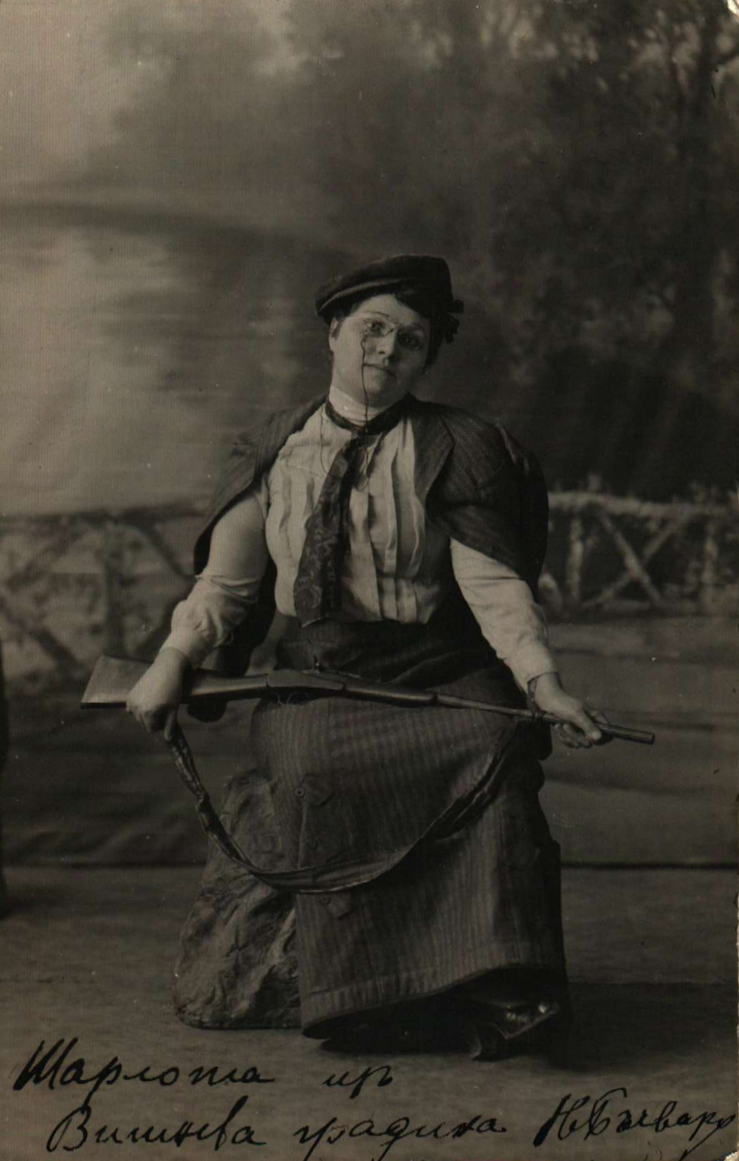 Bulgarian actress Nikolina Bachvarova (1889-1943)